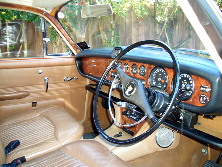 1968 Jaguar 420 interior (front)